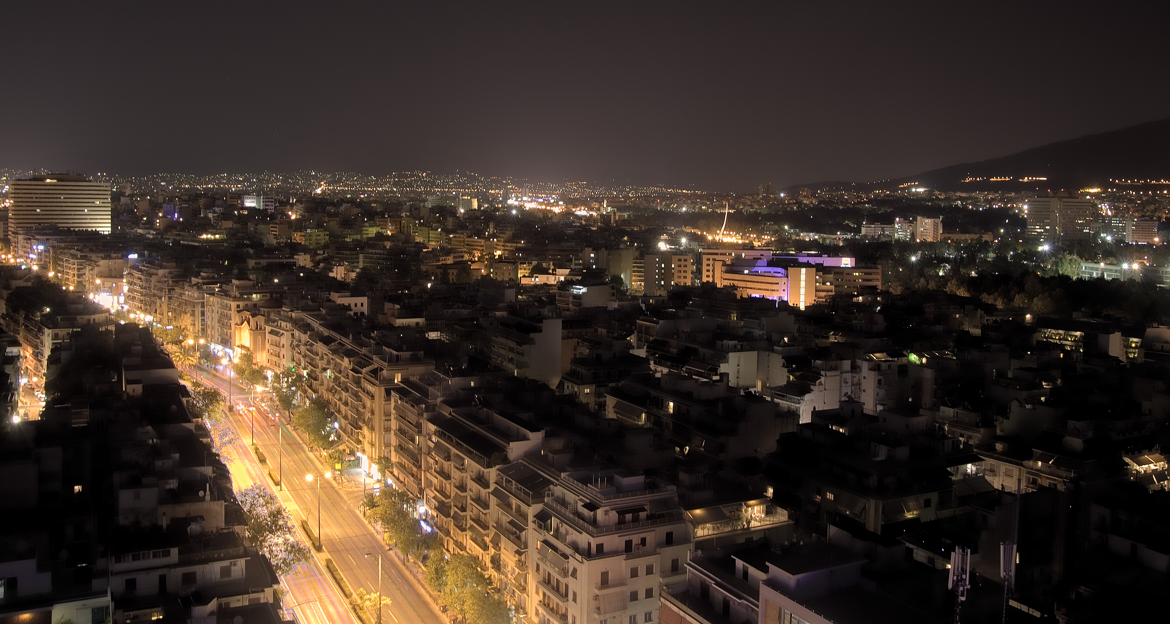 Kifissias Avenue, Athens, Greece.